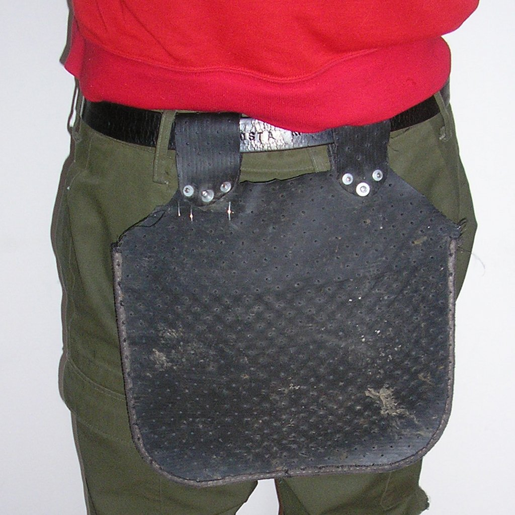 Heavy butt flap constructed of car mat and rivets.